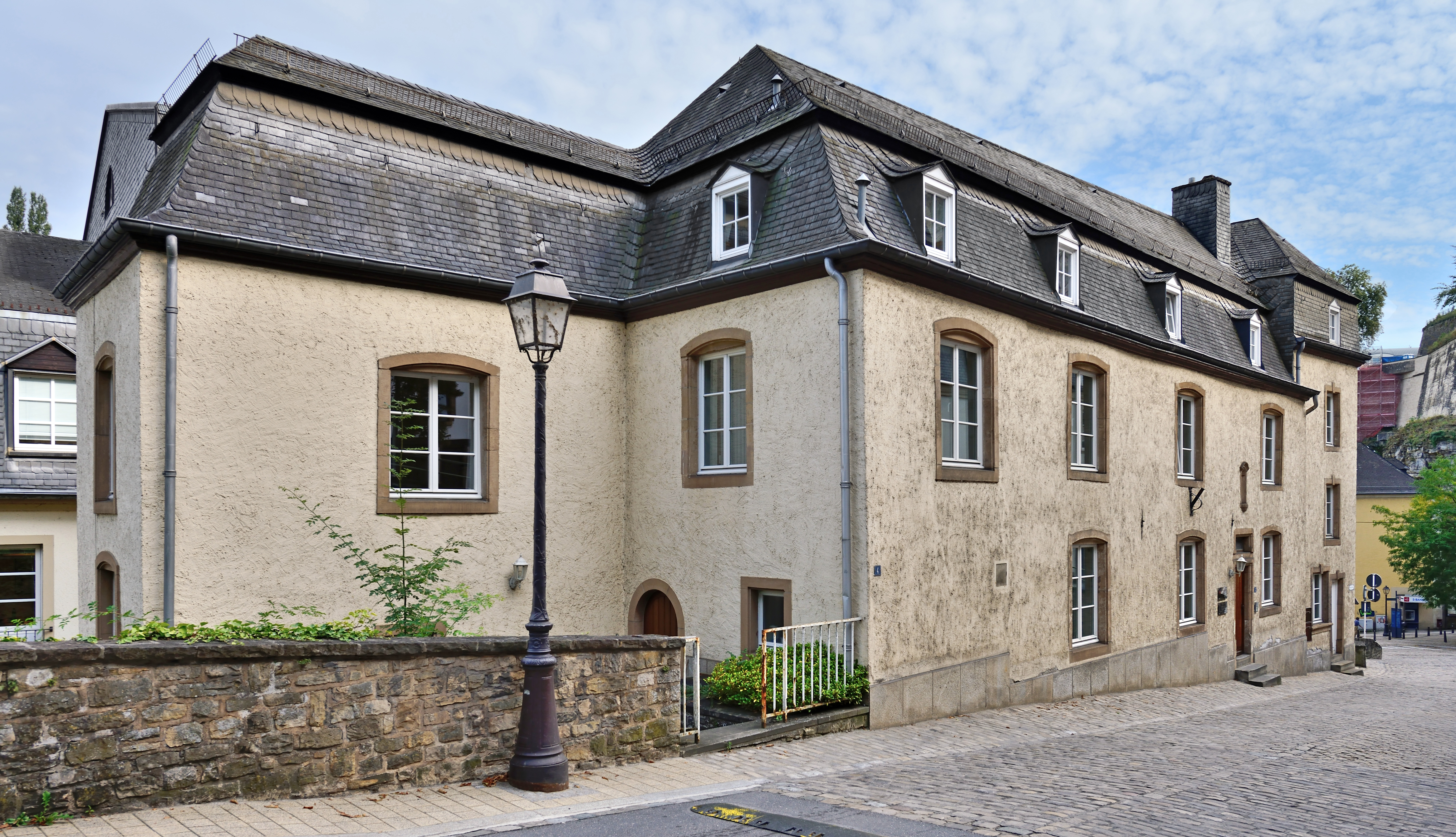 The so-called Van der Vekene-House at 2 and 4 in rue Sosthène Weis in Luxembourg-Grund. The house, which was erected around 1700, is listed as National Monument since Juli 28 1989.